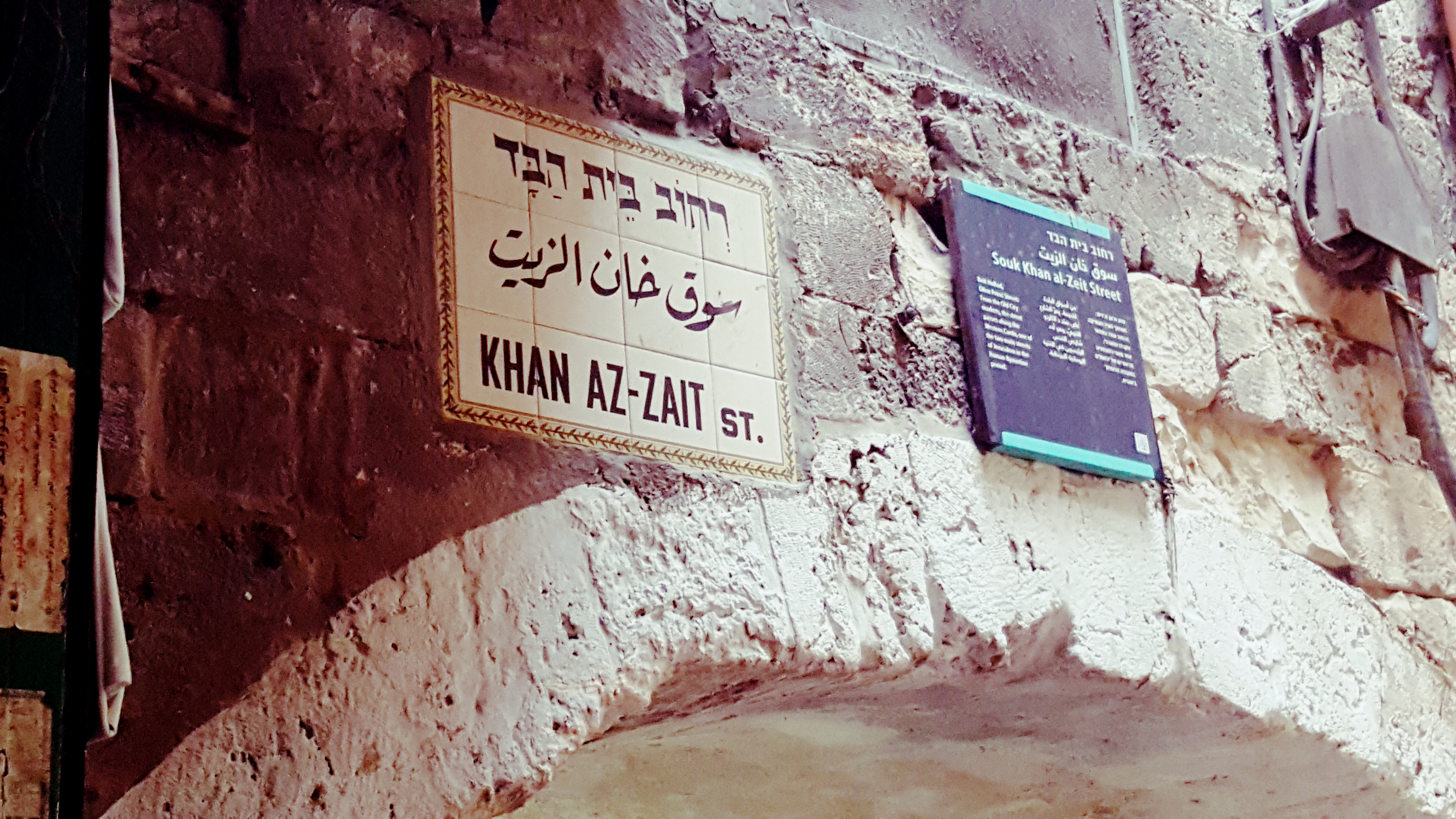 سوق خان الزبت